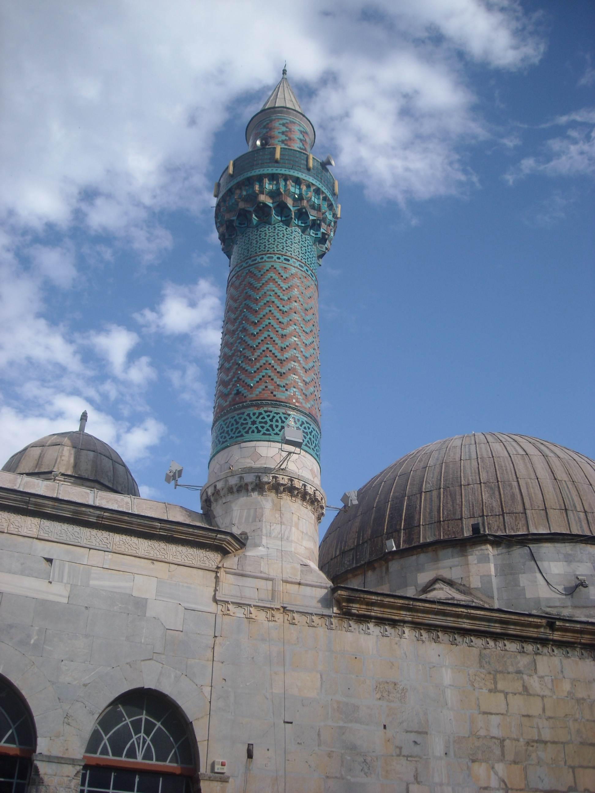 minaret